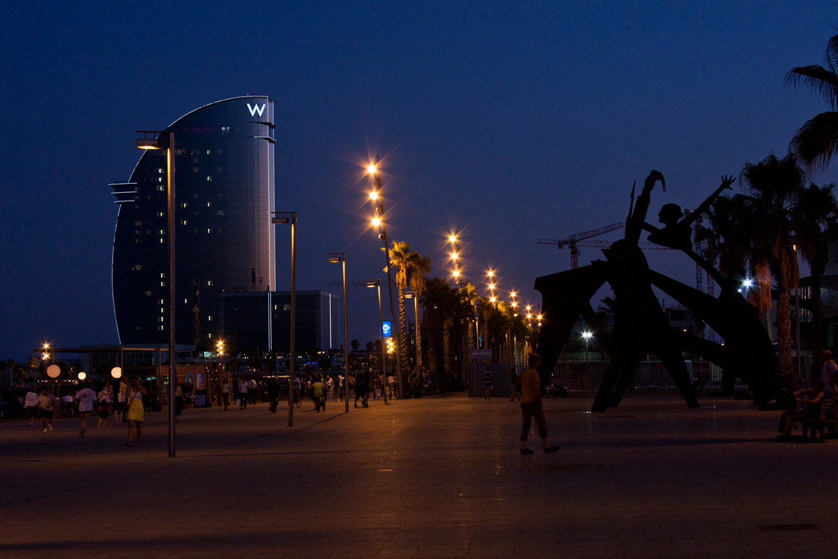 Deptak